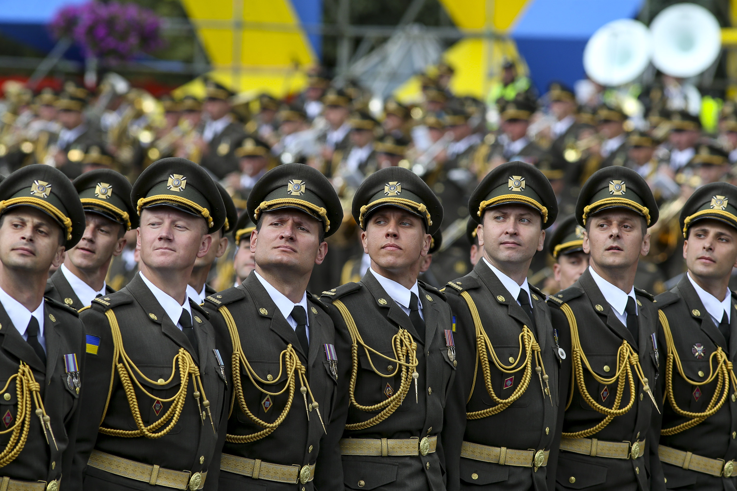 Independence Day military parade in Kyiv. August 24th, 2017